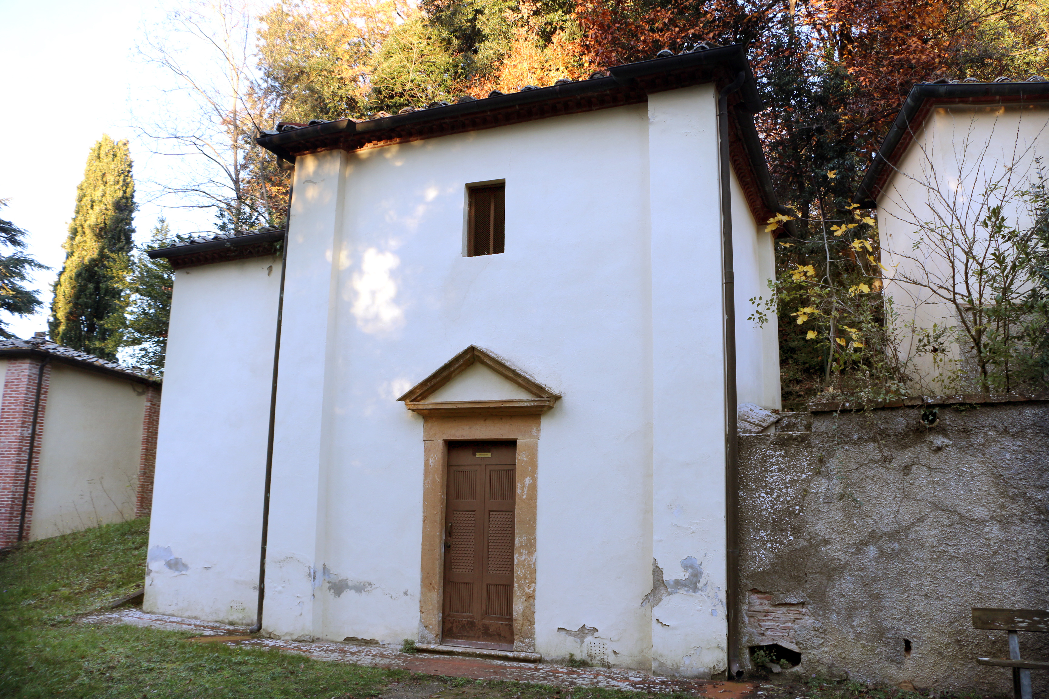 San Vivaldo Sacro Monte